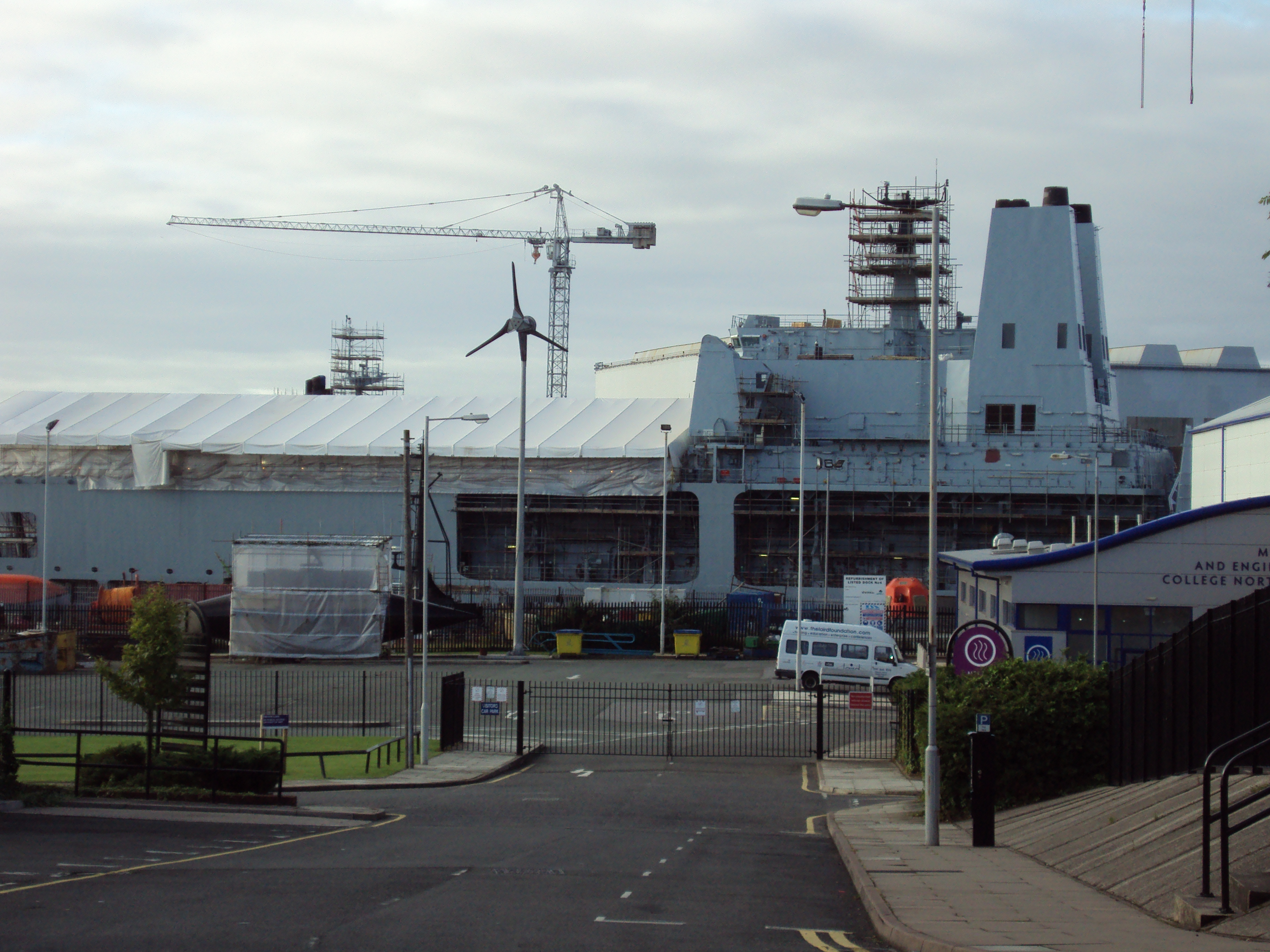 The RFA Fort Victoria under repair at Cammell Laird shipyard, Birkenhead, Merseyside, England.